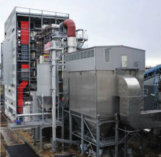 Cogeneration station in Metz (France), using waste wood biomass from the surrounding forests as renewable energy source.